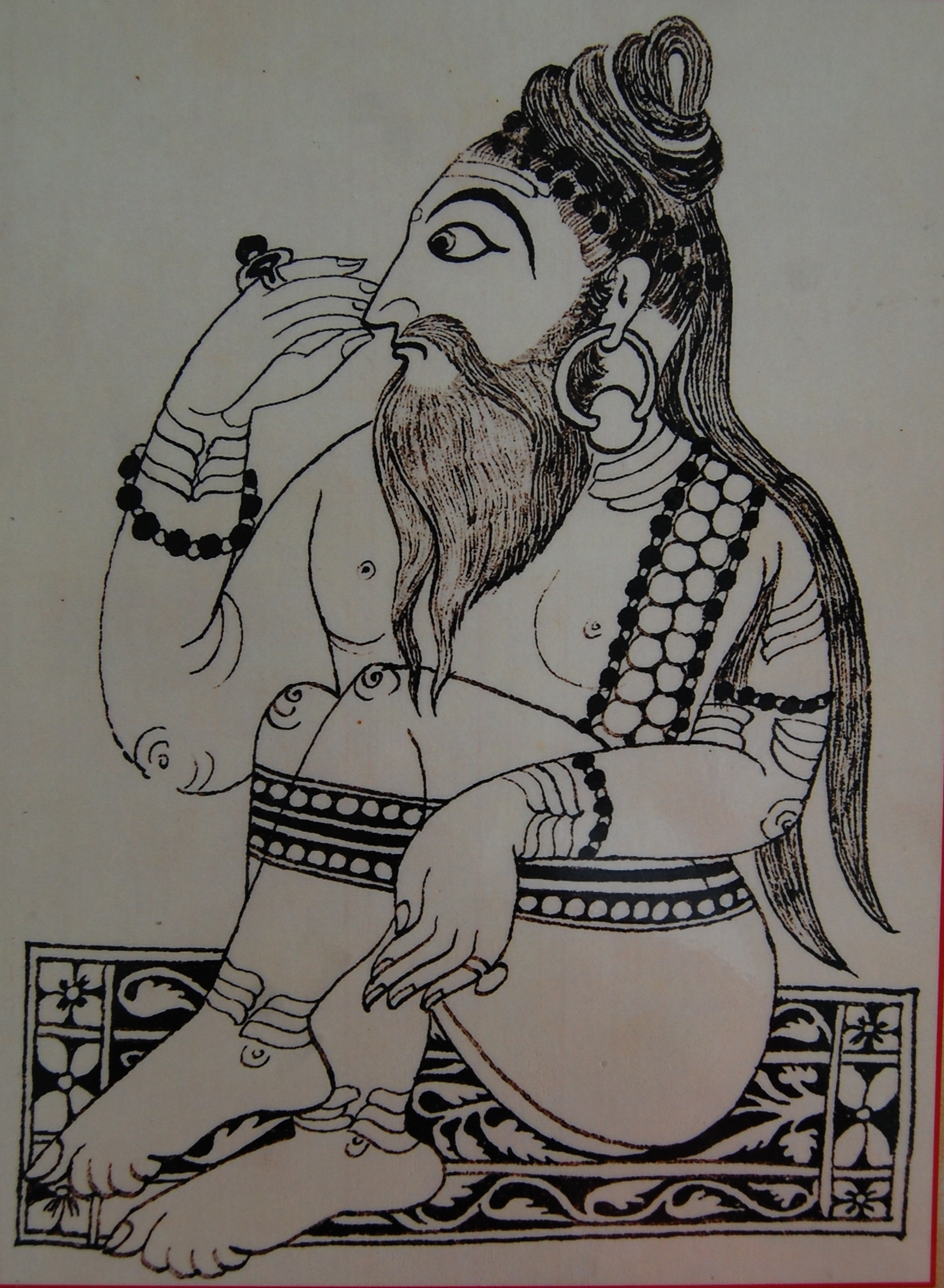 shishya of samarth ramdas swami